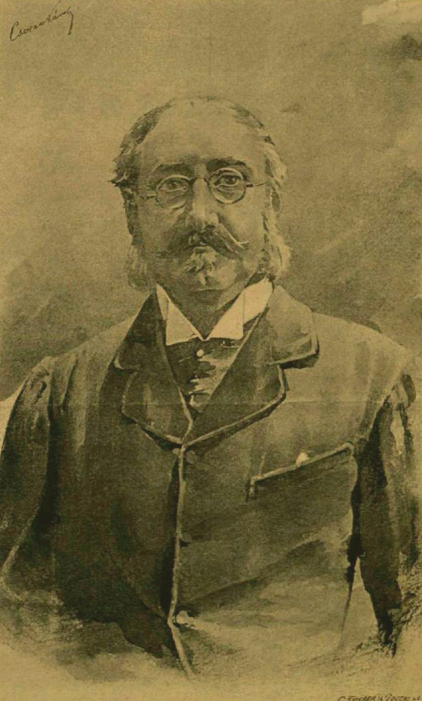 Ferenc Beniczky, politician.